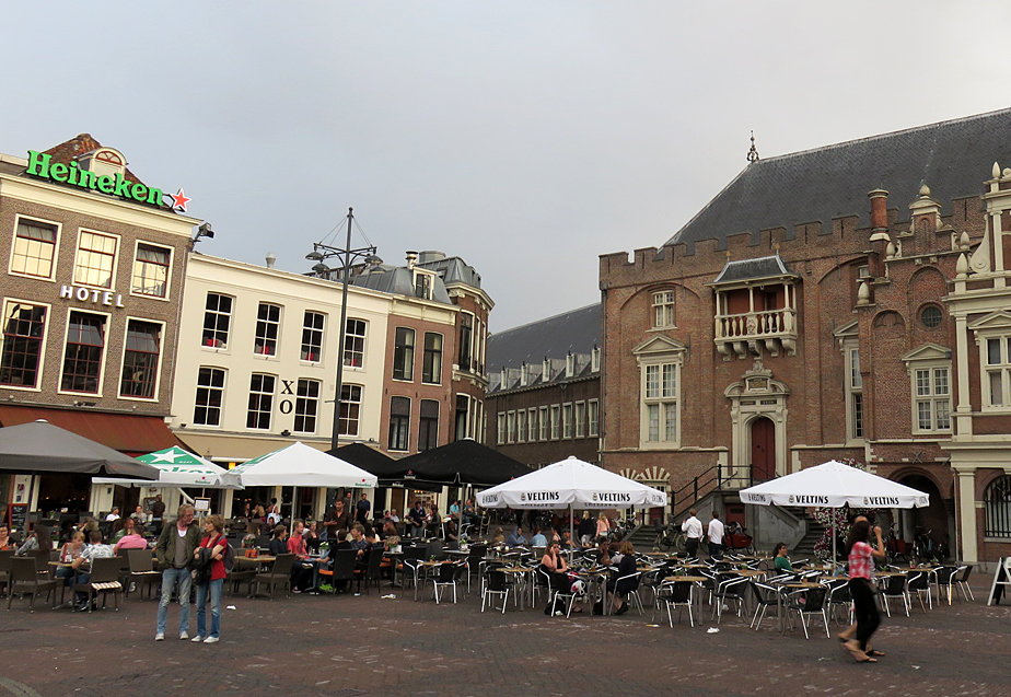 Terraces at Grote Markt in Haarlem